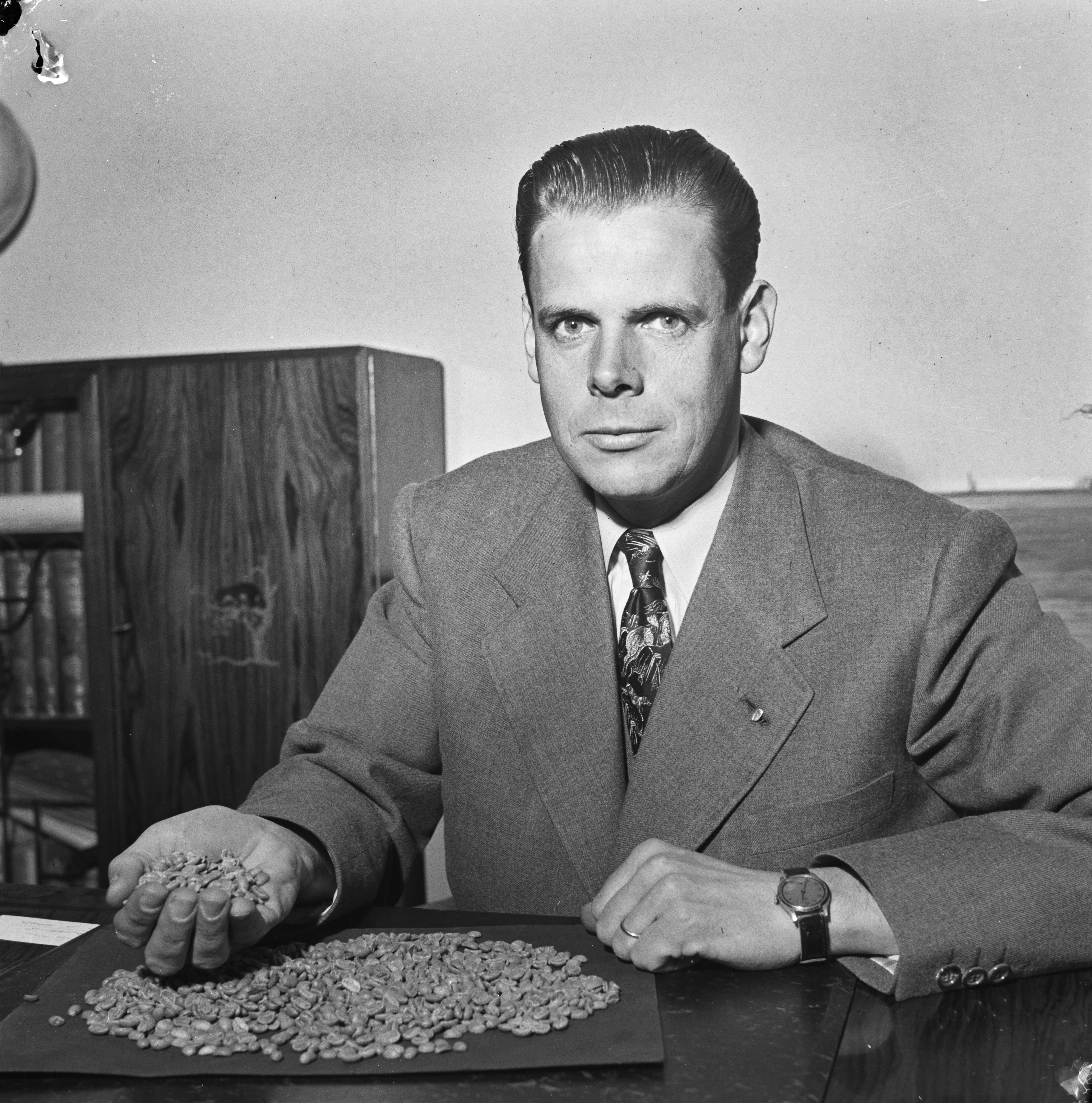 Photograph of the Finnish managing director Henrik Paulig (1915–1982) with coffee beans.